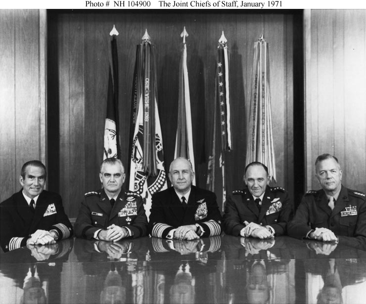 The Joint Chiefs of Staff, photographed at the Pentagon, 4 January 1971.From left to right: Admiral Elmo R. Zumwalt, Jr., Chief of Naval Operations; General William C. Westmoreland, Chief of Staff, U.S. Army; Admiral Thomas H. Moorer, USN, Chairman, Joint Chiefs of Staff; General John D. Ryan, Chief of Staff, U.S. Air Force; and General Leonard F. Chapman, Jr., Commandant, U.S. Marine Corps.